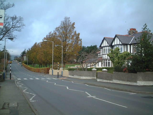 Ballanard Road, Douglas Looking Westwards towards Abbeylands